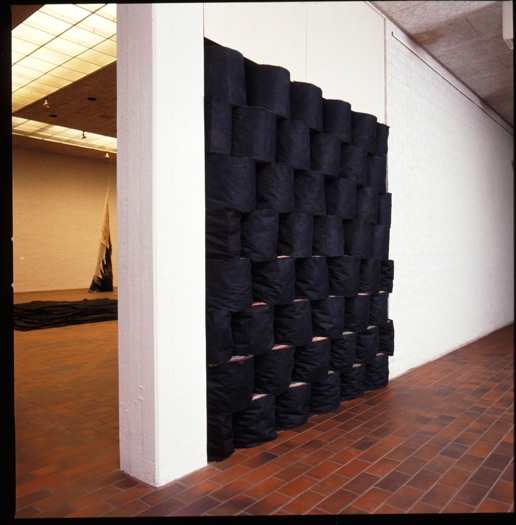 This is a scan of a slide of an artwork by Dutch visual artist Sibyl Heijnen. The title of the work is "The two sides of the same coin 1" and it was created in 1990. This image shows the artwork's dark side. In 1992, it won the Excellence Prize in the Third International Textile Competition in Kyoto, Japan. The image was uploaded to Wikipedia with permission from the artist.